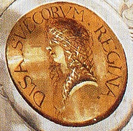 Queen Disa as imagined by 17th-cenruty painter Johan Sylvius in the 1680s, detail of painting in the monumental stairwell of Drottningholm Palace